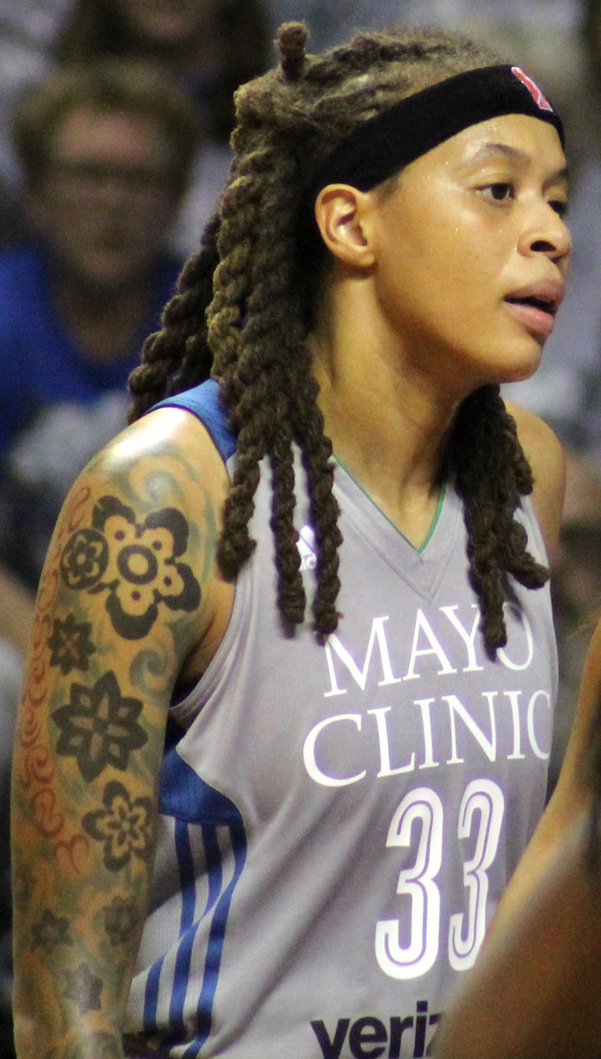 Seimone Augustus of the Minnesota Lynx during the 2017 WNBA Finals